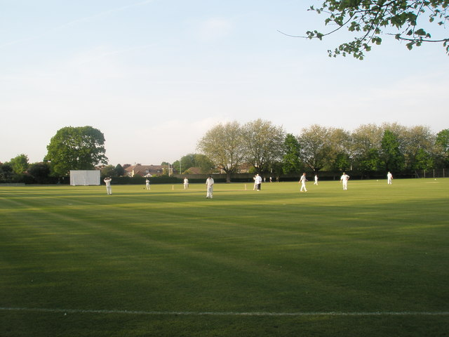 Peaceful cricket scene within Havant Park